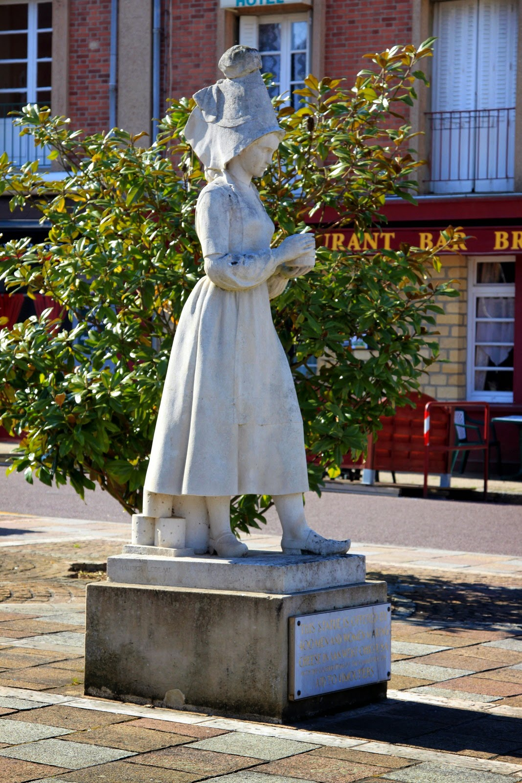 Marie Harel (born Marie Catherine Fontaine; April 28, 1761 – November 9, 1844) was a French cheesemaker, who, according to local legend, invented Camembert cheese